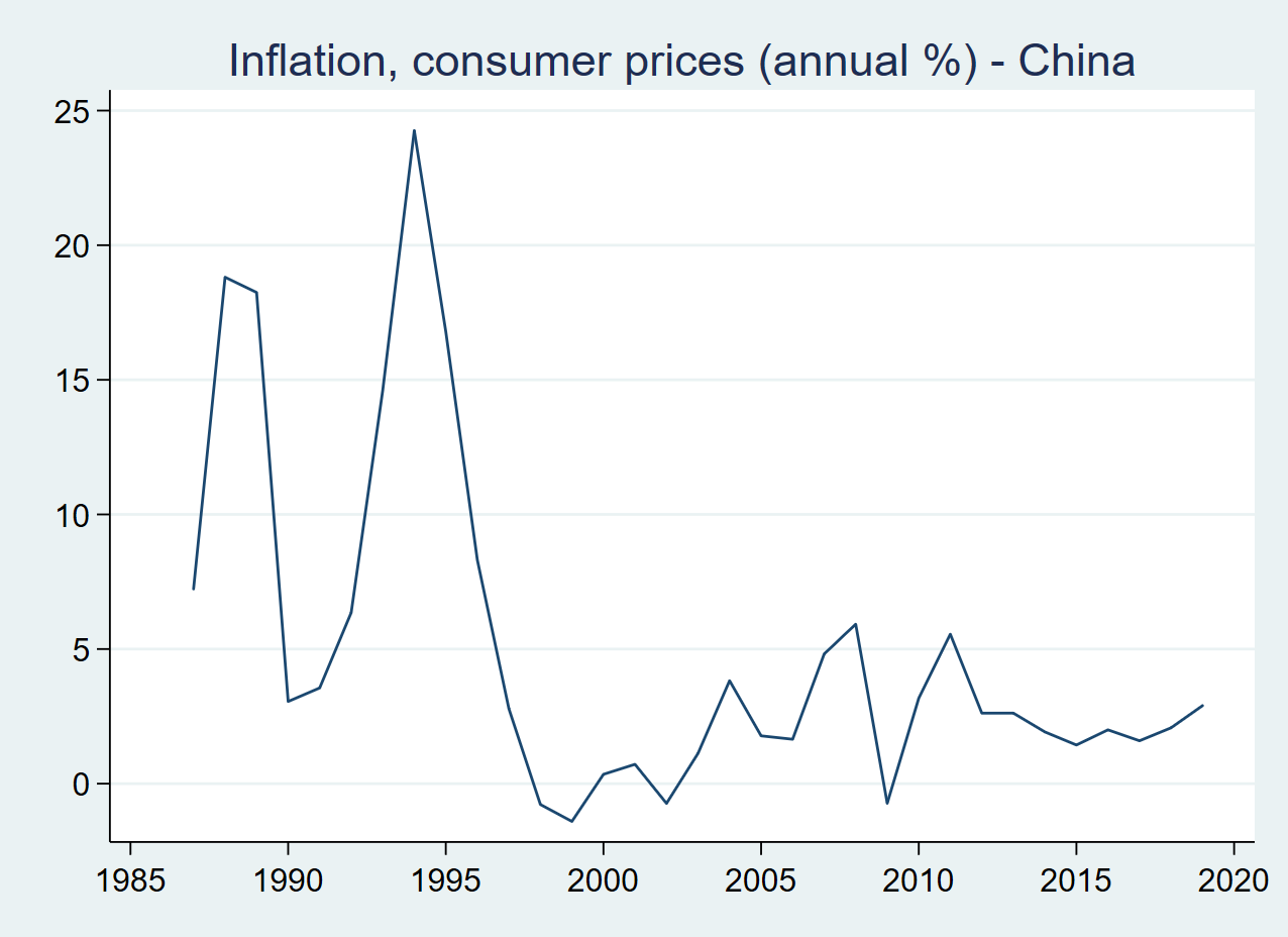 This chart display the consumer price inflation